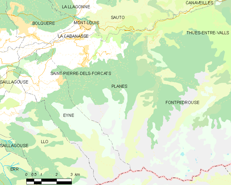 Map of French municipality